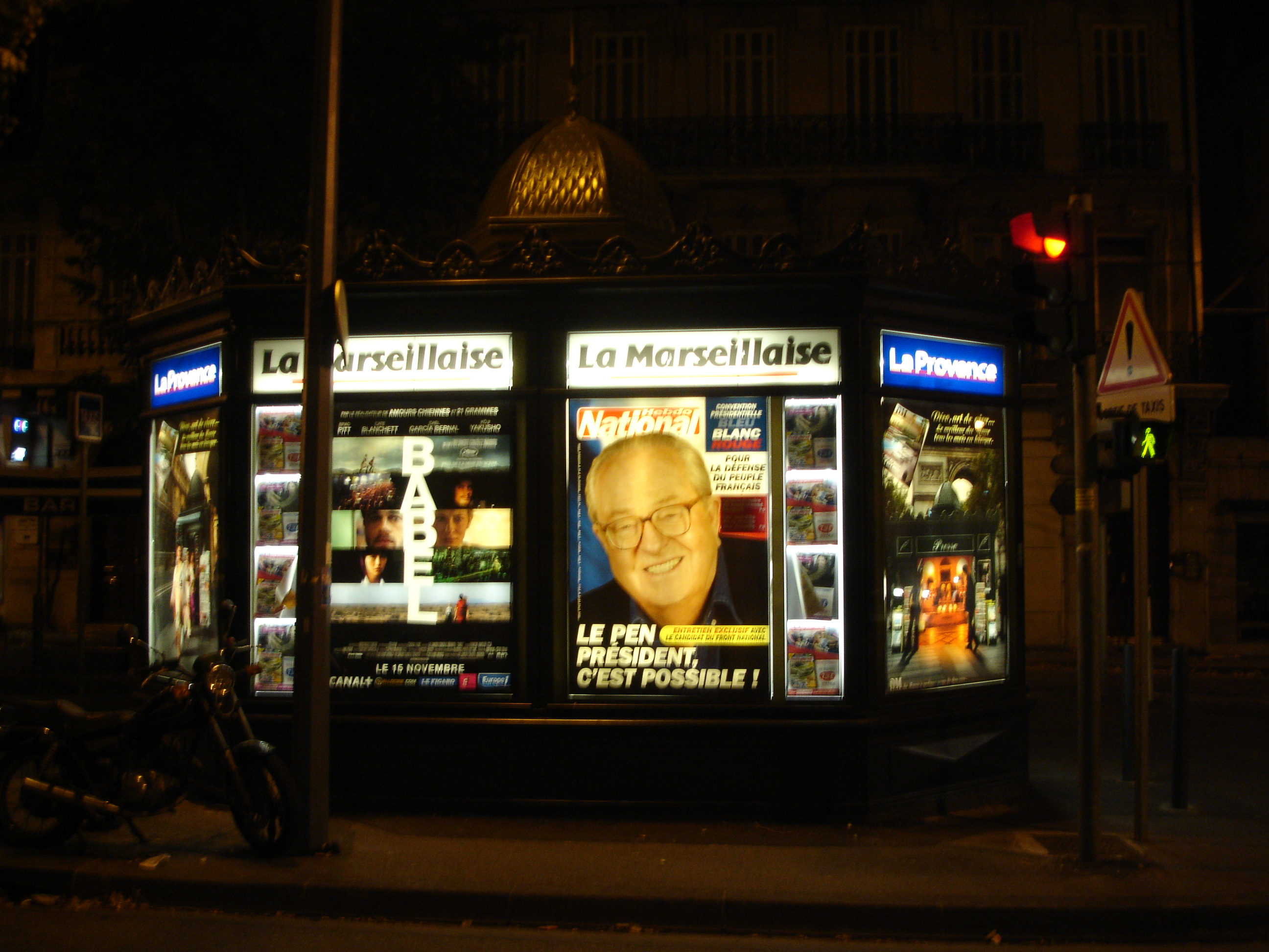 National advertisement in Marseille, predicting the now unrealised possibility of Jean-Marie Le Pen becoming President in 2007